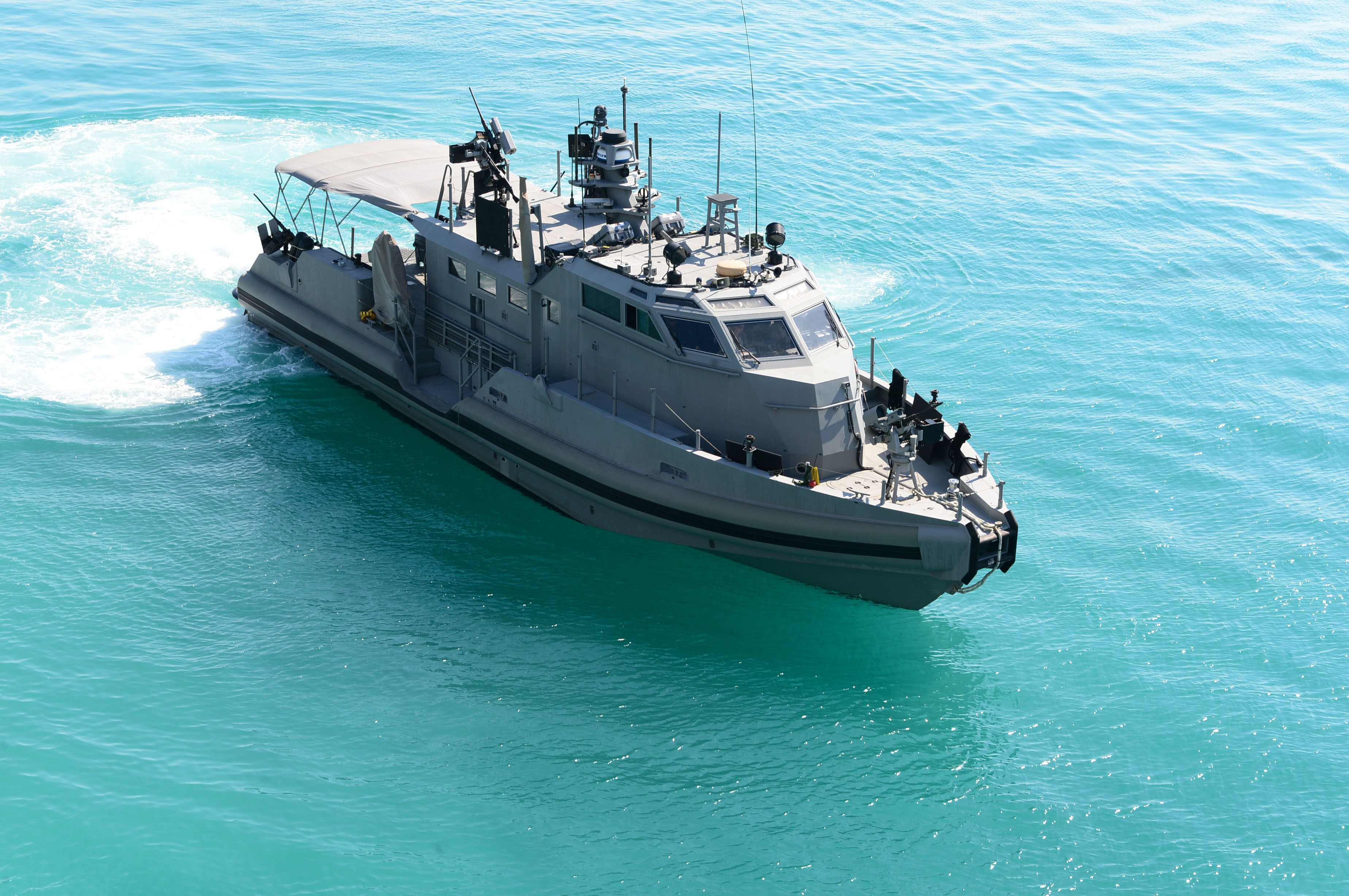 ARABIAN GULF (Nov. 15, 2014) A Coastal Command Boat (CCB), from Costal Riverine Squadron (RIVRON) 2, based in Norfolk, Va., escorts the Ticonderoga-class guided-missile cruiser USS Bunker Hill (CG 52). Bunker Hill is deployed in the U.S. 5th Fleet area of responsibility supporting Operation Inherent Resolve, strike operations in Iraq and Syria as directed, maritime security operations, and theater security cooperation efforts in the region. (U.S. Navy photo by Mass Communication Specialist 1st Class LaTunya Howard/Released)